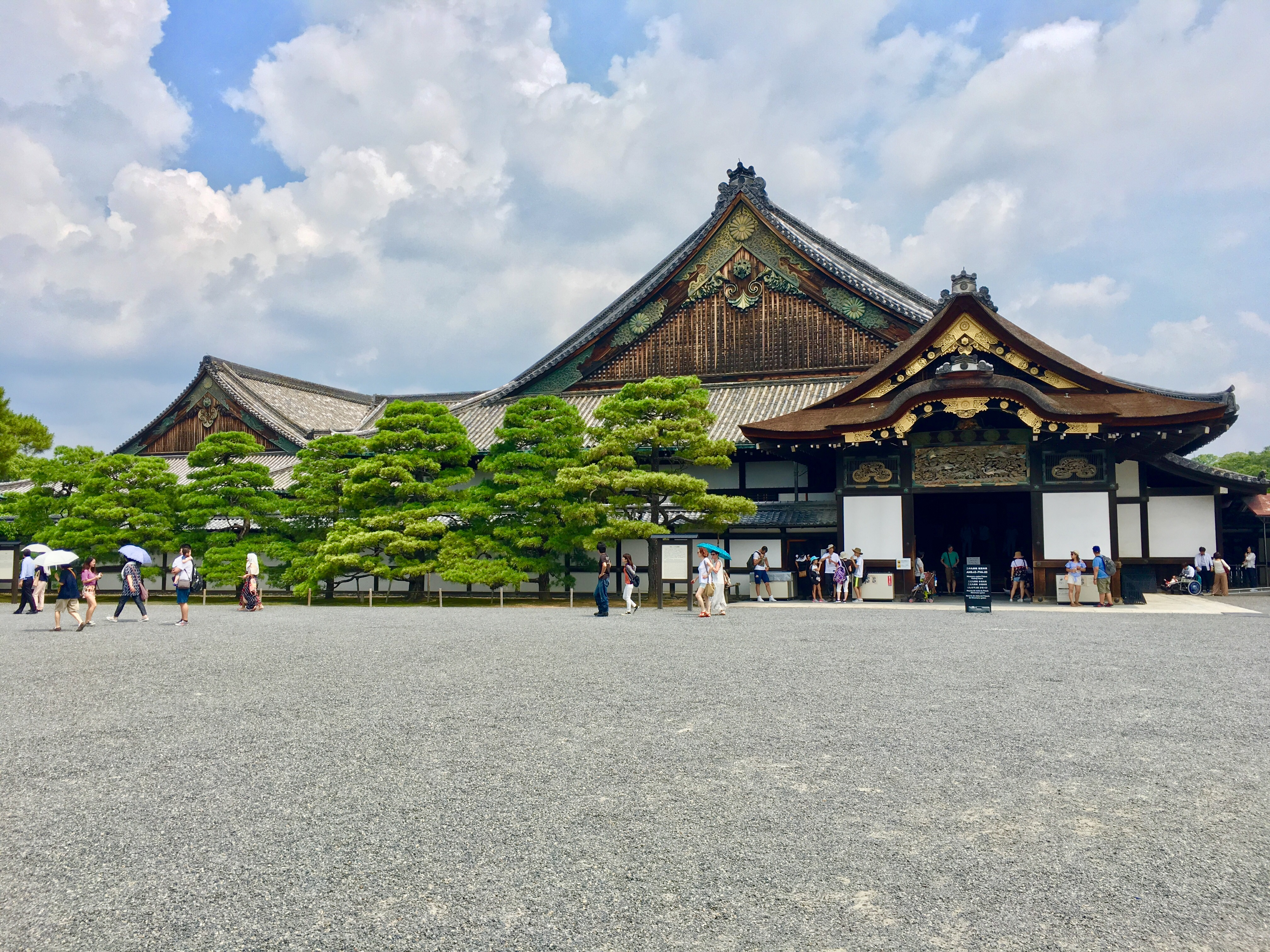 Ninomaru palace of Nijō Castle